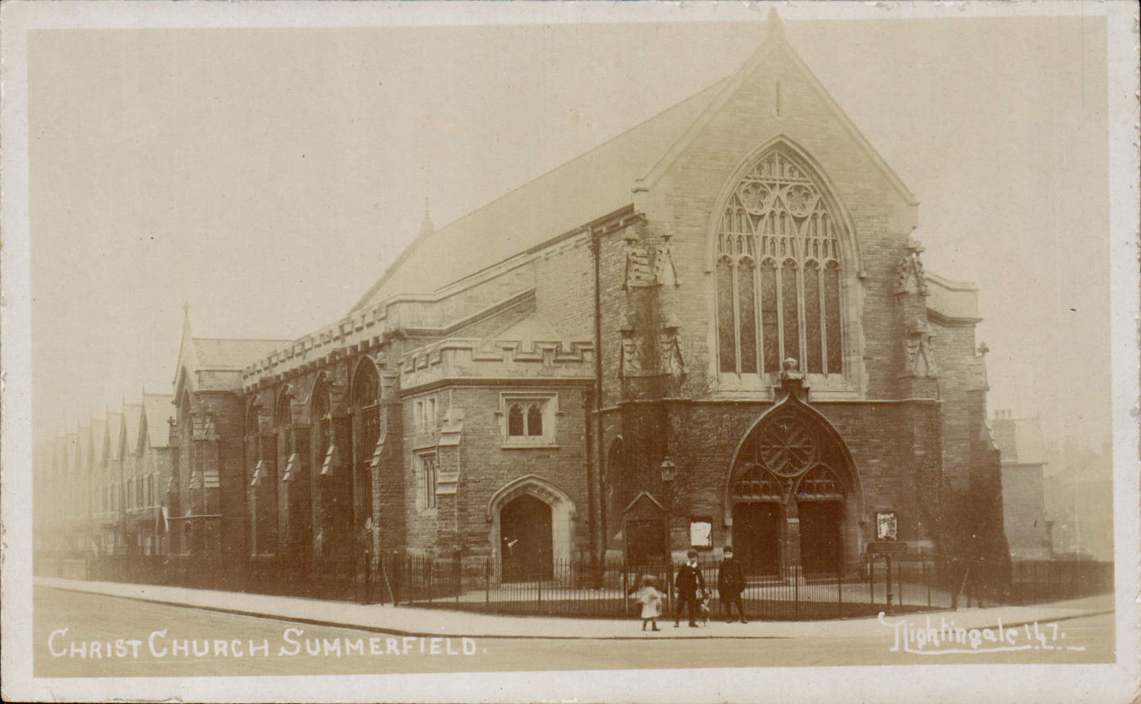 Postcard depicting Christ Church, Summerfield, Birmingham, England.